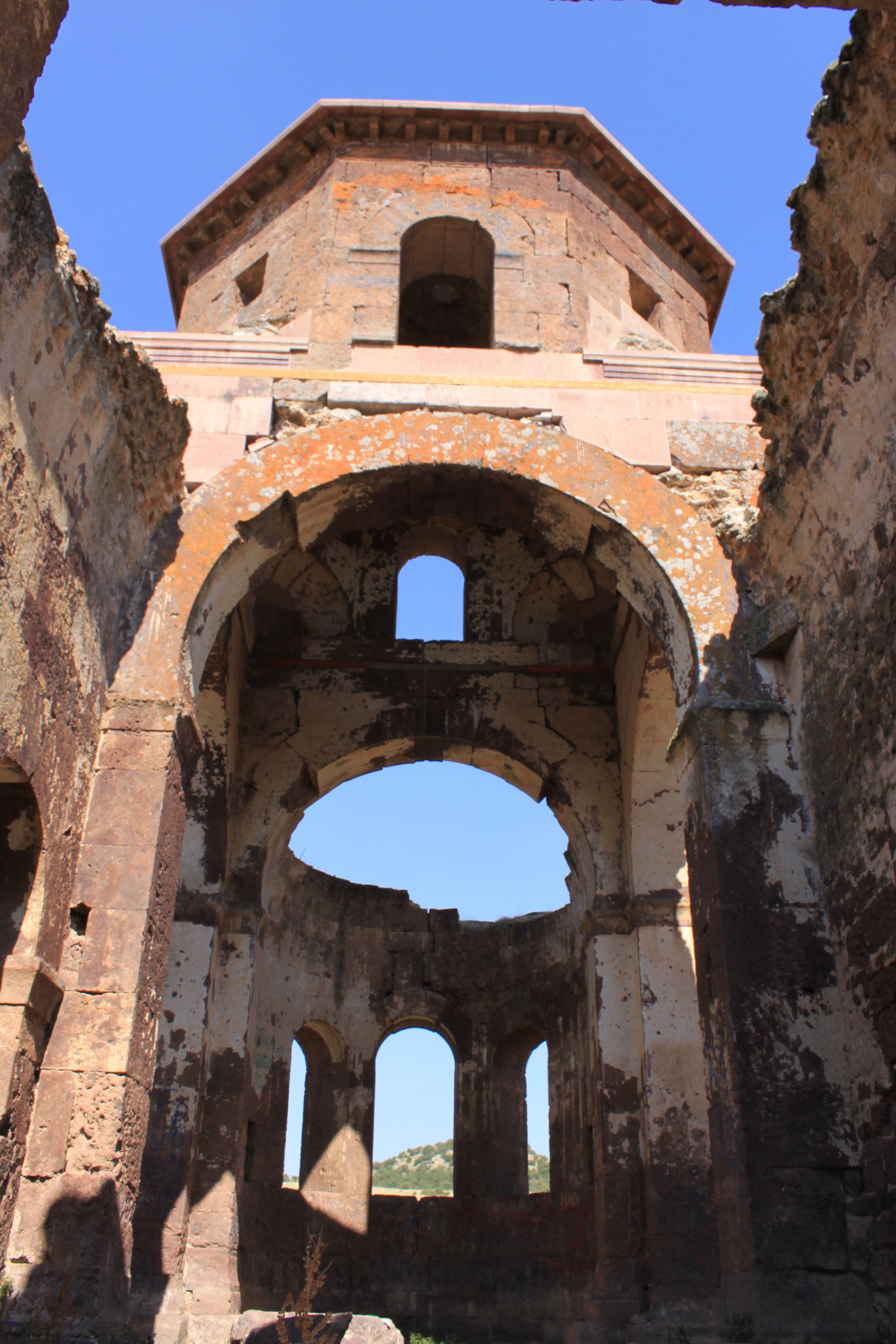 Kısıl Kilise ("red church") in Sivrihisar, Güzelyurt (Aksaray)